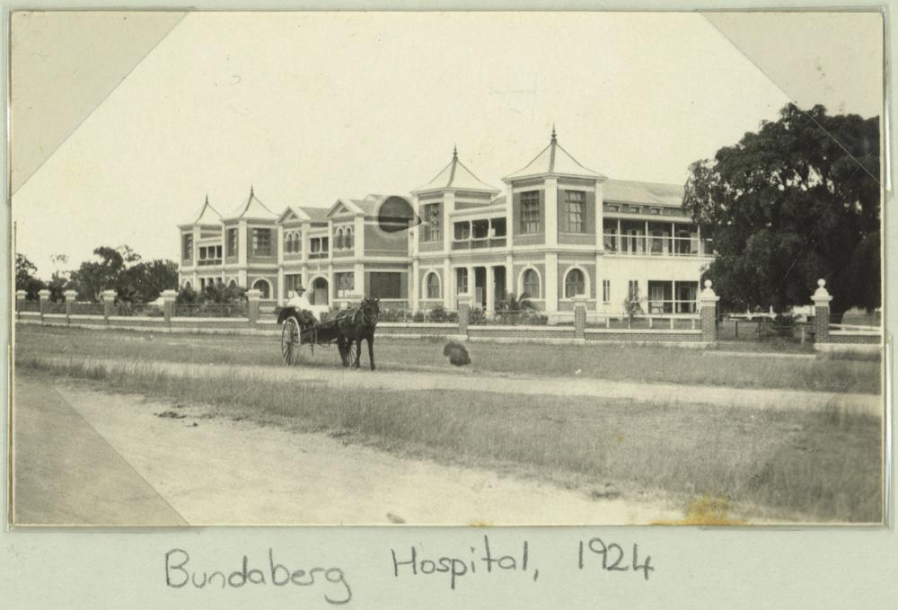 Bundaberg Hospital, 1924 Bundaberg Base Hospital opened by the Governor of Queensland 1914. A small cottage hospital was previously on this site from the 1880s.